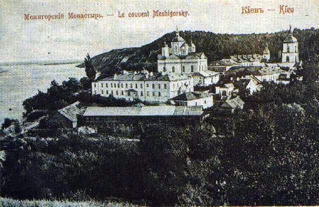 Postcard depiction of the historic Cossack Mezhyhirskyi monastery near Kiev, Ukraine. Destroyed in 1935